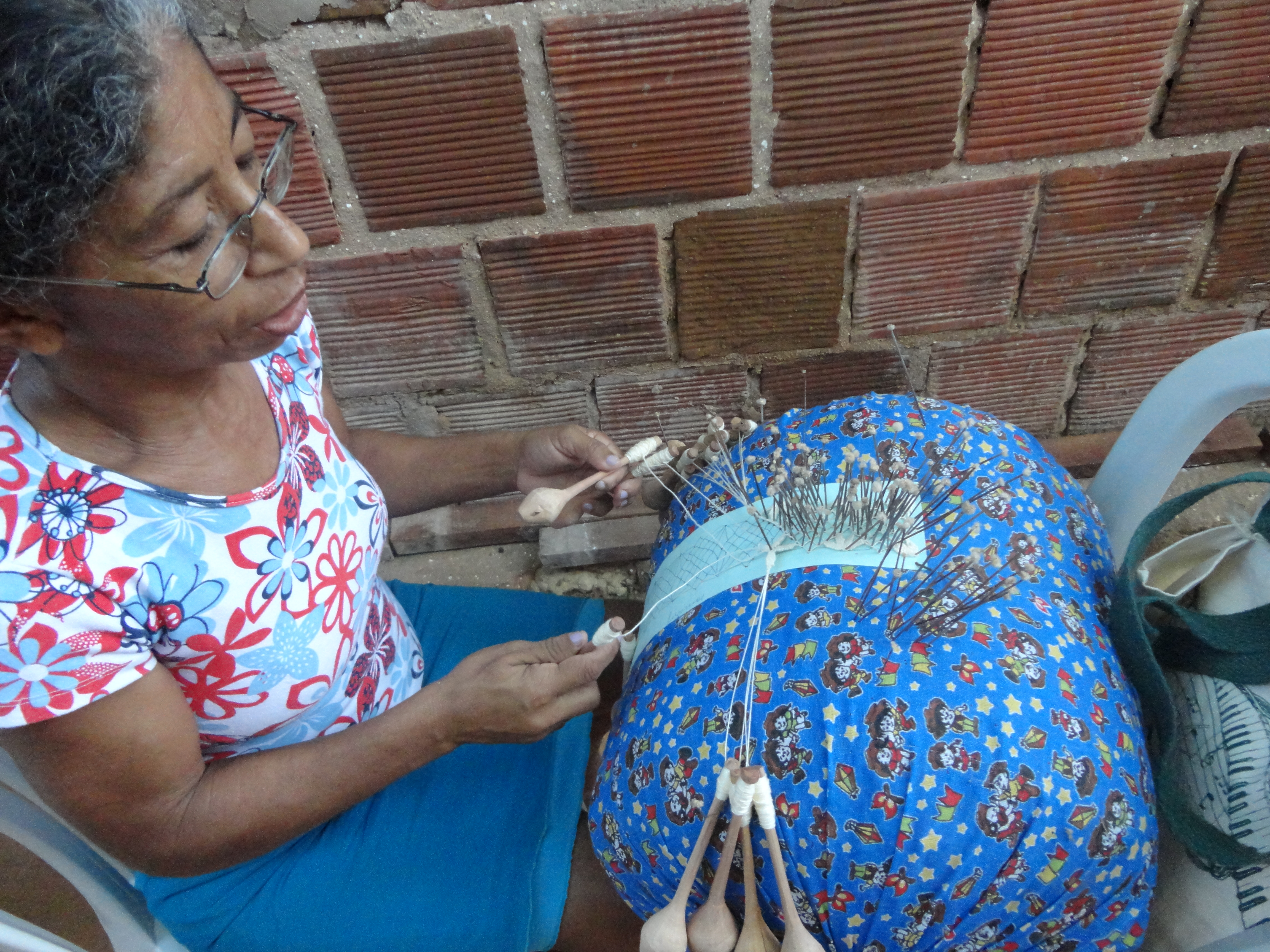 Renda de Bilros de Tibau - RN